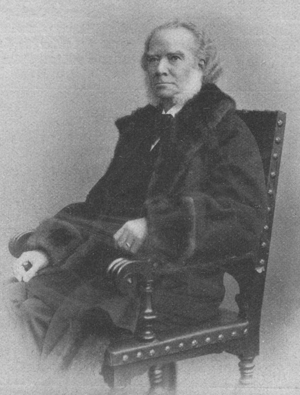 The German composer Carl Reinecke (1824-1910) in 1902.